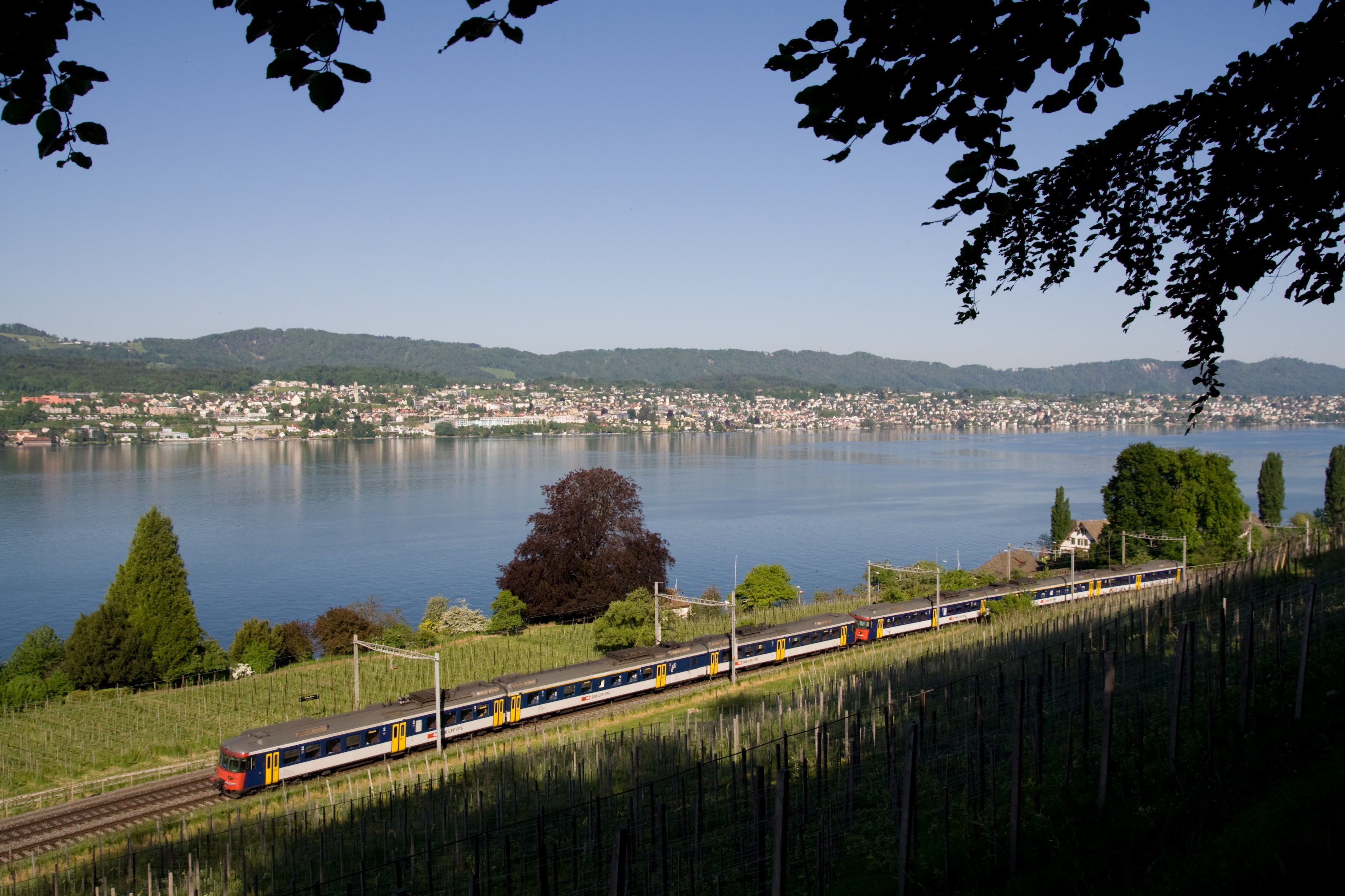 Two modernized RABDe 12/12 "Mirage" multiple units in their original territory, the northern lakeside of lake Zurich. Between Herrliberg-Feldmeilen and Winkel.